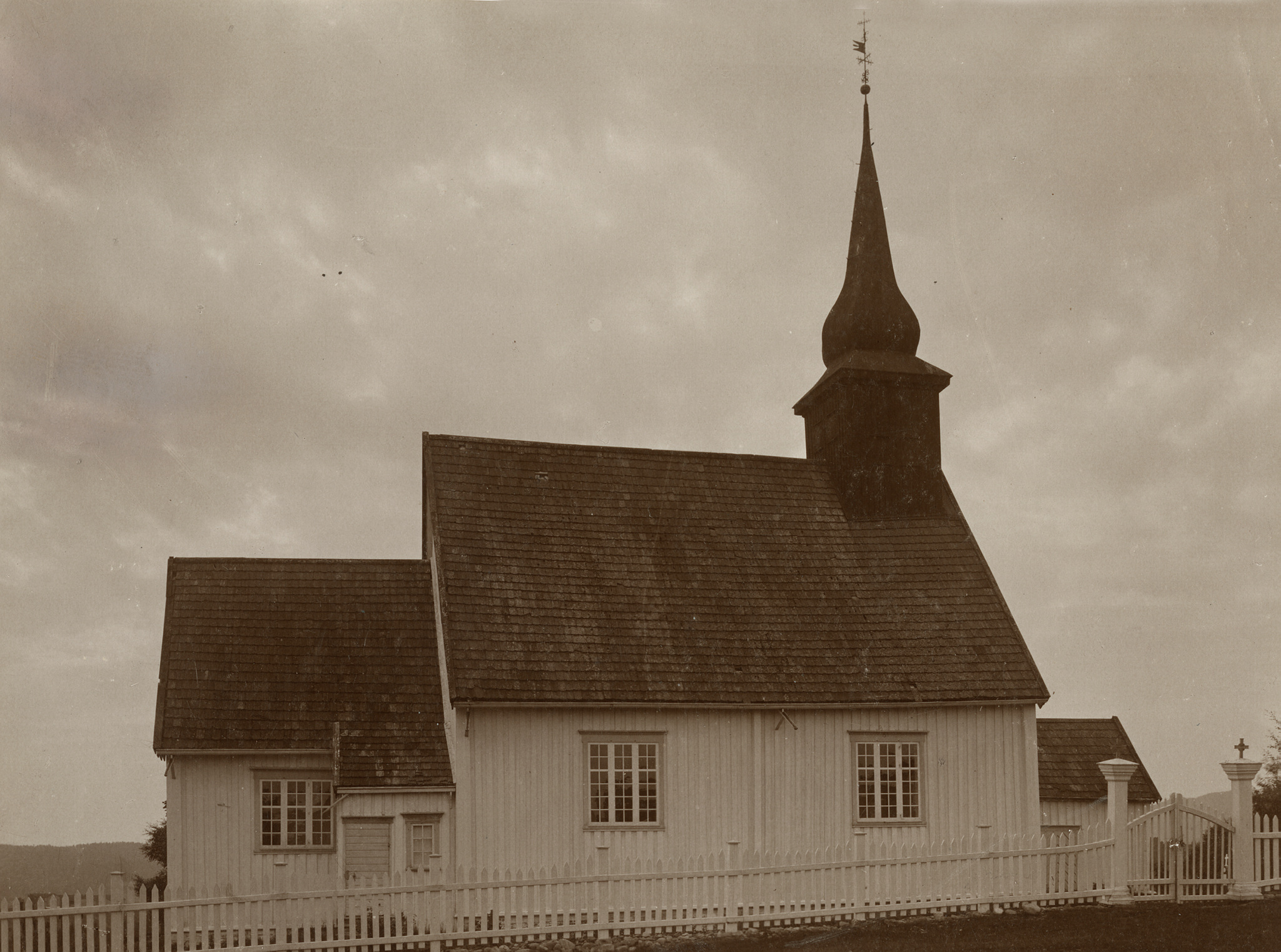 Skei kirke før den fikk nytt tårn og spir i 1911. Foto: Christian Christensen Thomhav. Fra Kilturminnebilder.no